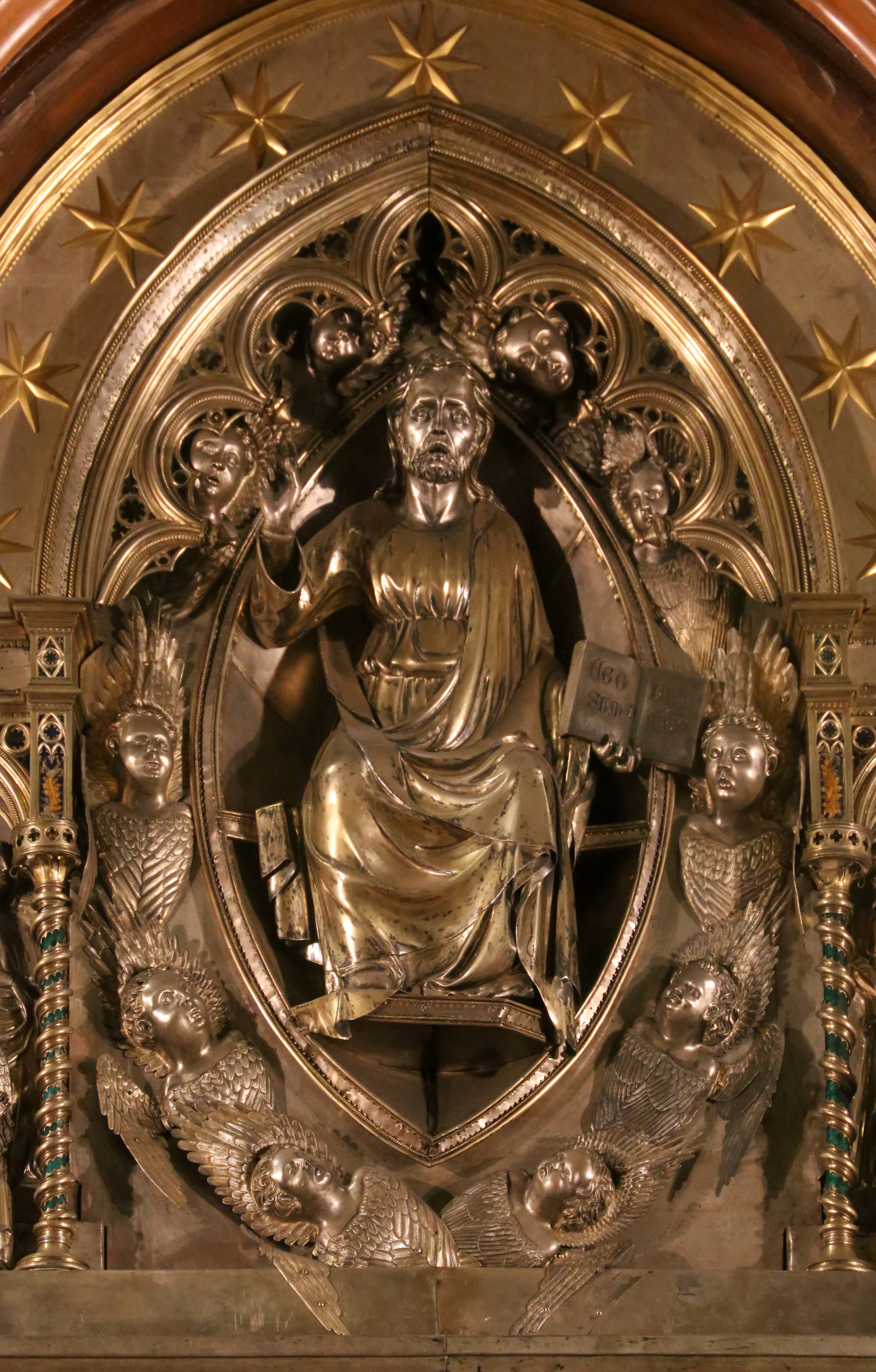 Silver Altar of Saint James